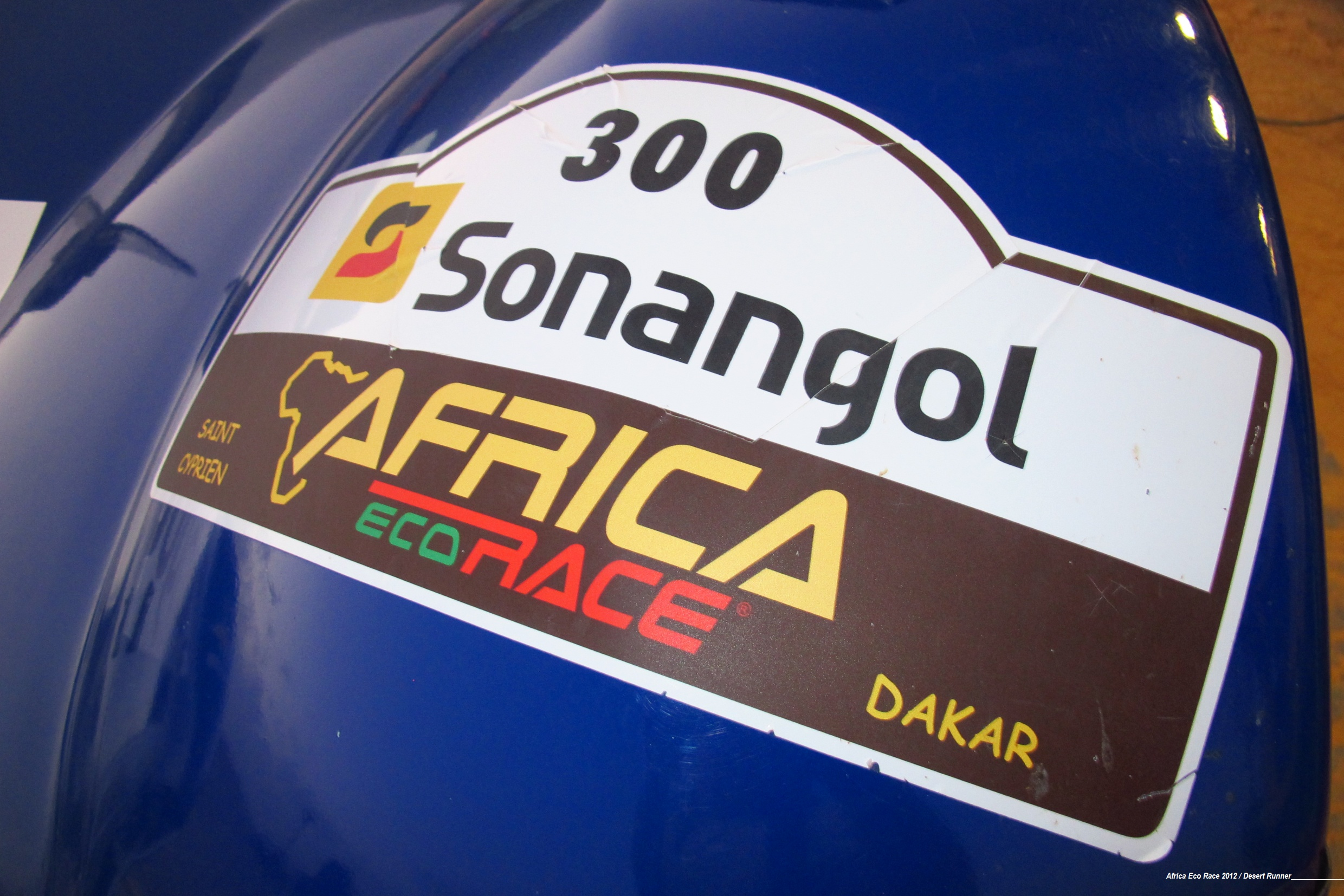 Africa Eco Race 2012